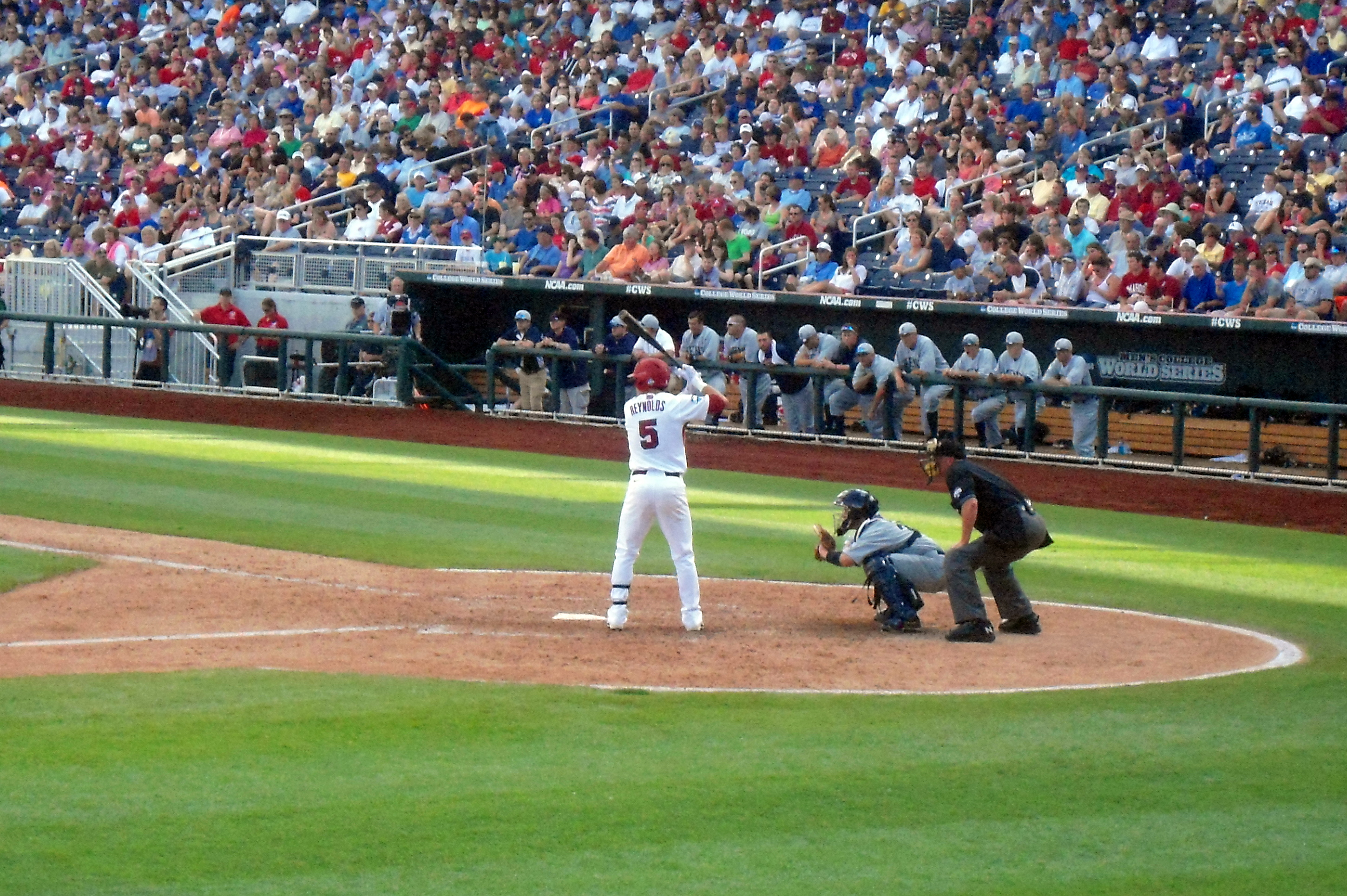 Matt Reynolds bats for the Arkansas Razorbacks in the 2012 College World Series in Omaha, Nebraska against the Kent State Golden Flashes.